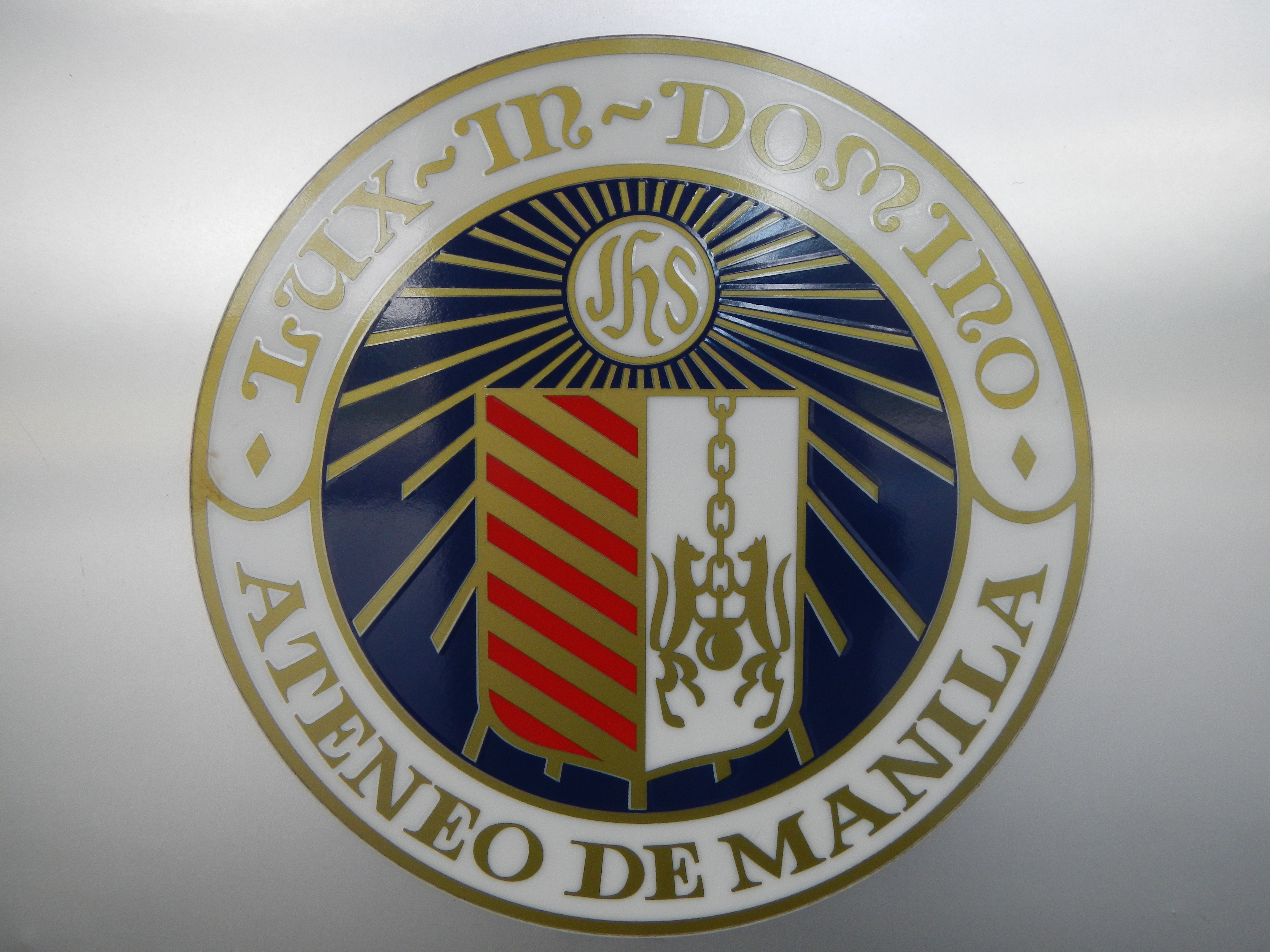 Ateneo de Manila University [1]